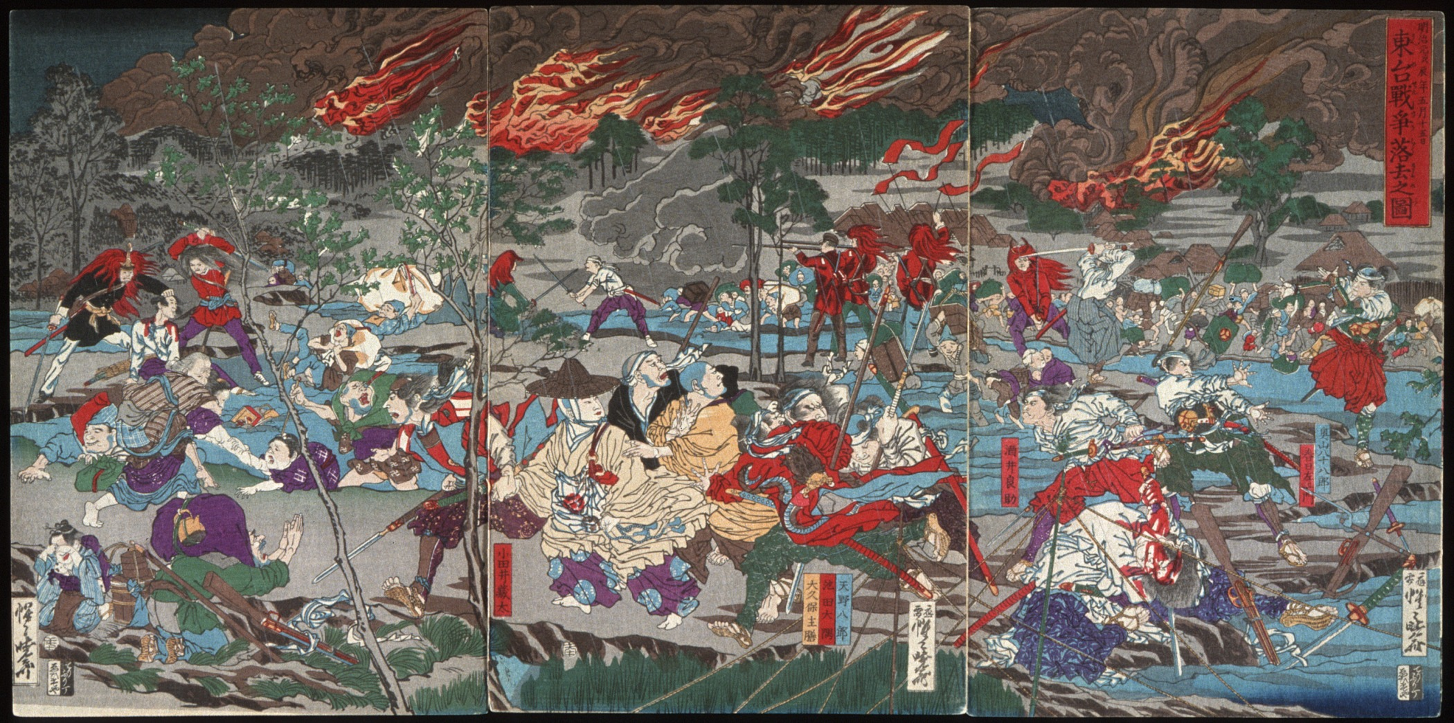 Japan, 1874 Prints; woodcuts Triptych; color woodblock print (a) Image: 14 x 9 3/8 in. (35.6 x 23.9 cm); Paper: 14 x 9 3/8 in. (35.6 x 23.9 cm); (b) Image: 14 x 9 3/8 in. (35.6 x 23.9 cm); Paper: 14 x 9 3/8 in. (35.6 x 23.9 cm); (c) Image: 14 x 9 3/8 in. (35.6 x 23.9 cm); Paper: 14 x 9 3/8 in. (35.6 x 23.9 cm) Herbert R. Cole Collection (M.84.31.534a-c) Japanese Art